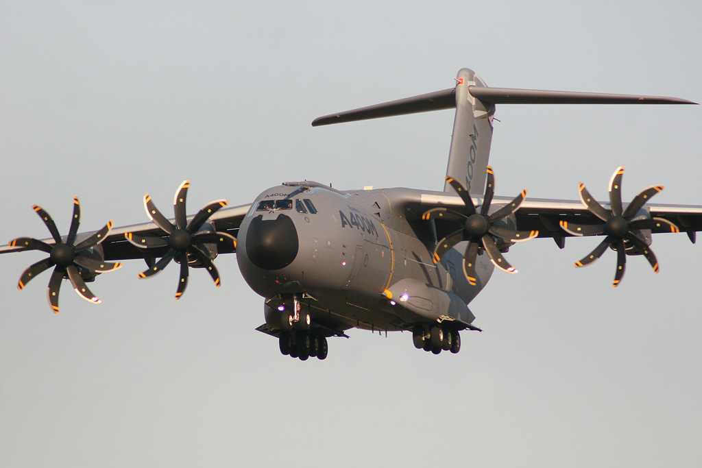 Approach to runway 27 of Seville Airport